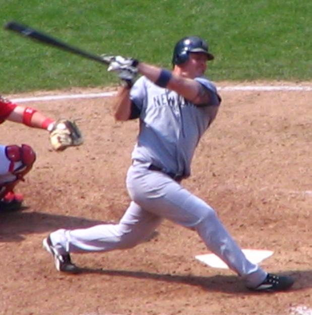 Jason Giambi swings at a pitch. Photo cropped by Quadzilla99.